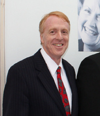 State Senator George Barker (D) of Virginia